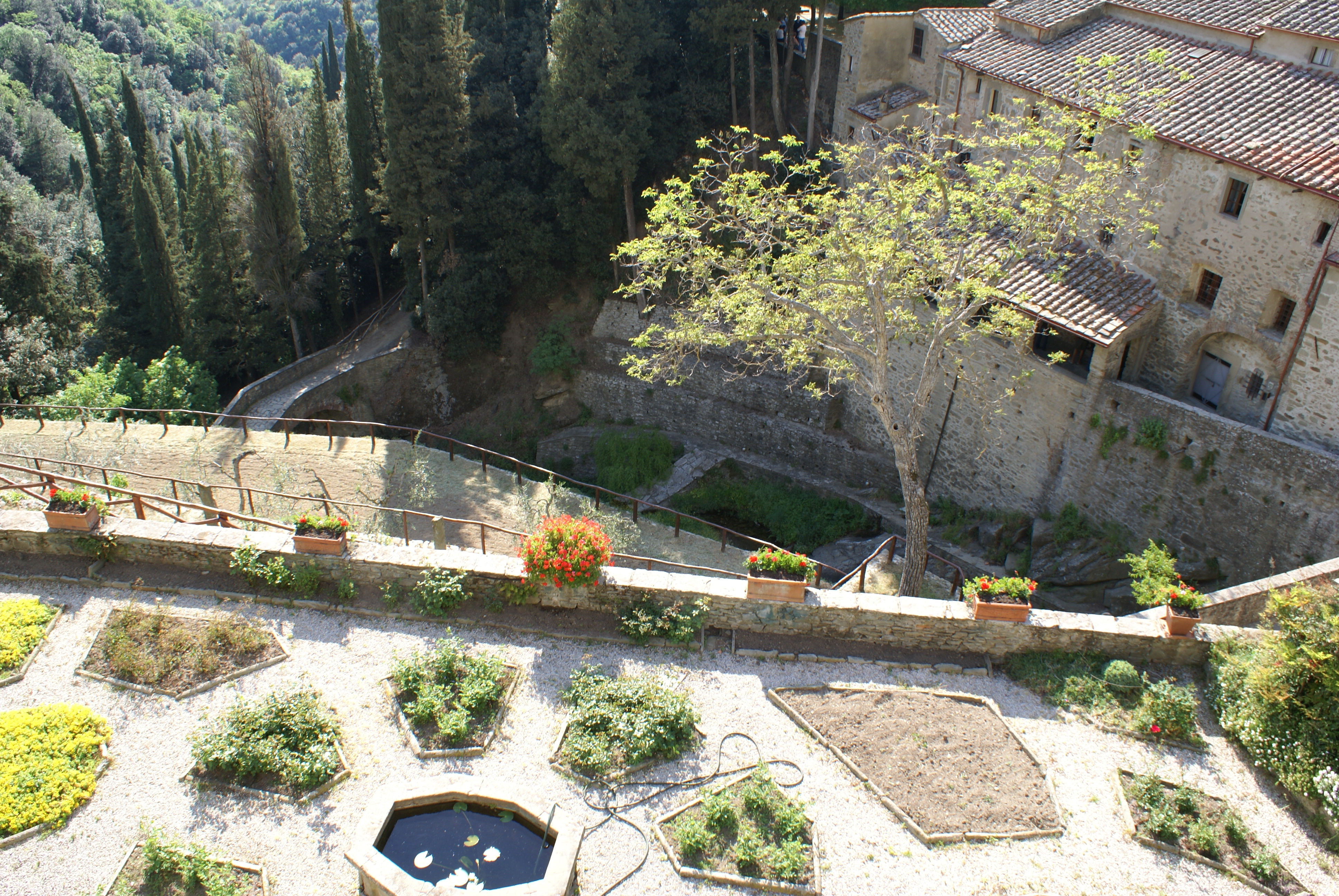 Convent delle Celle in Cortona - Stepped gardens